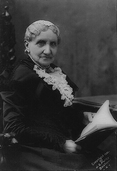 Mary A. Livermore, half-length portrait, seated, facing right